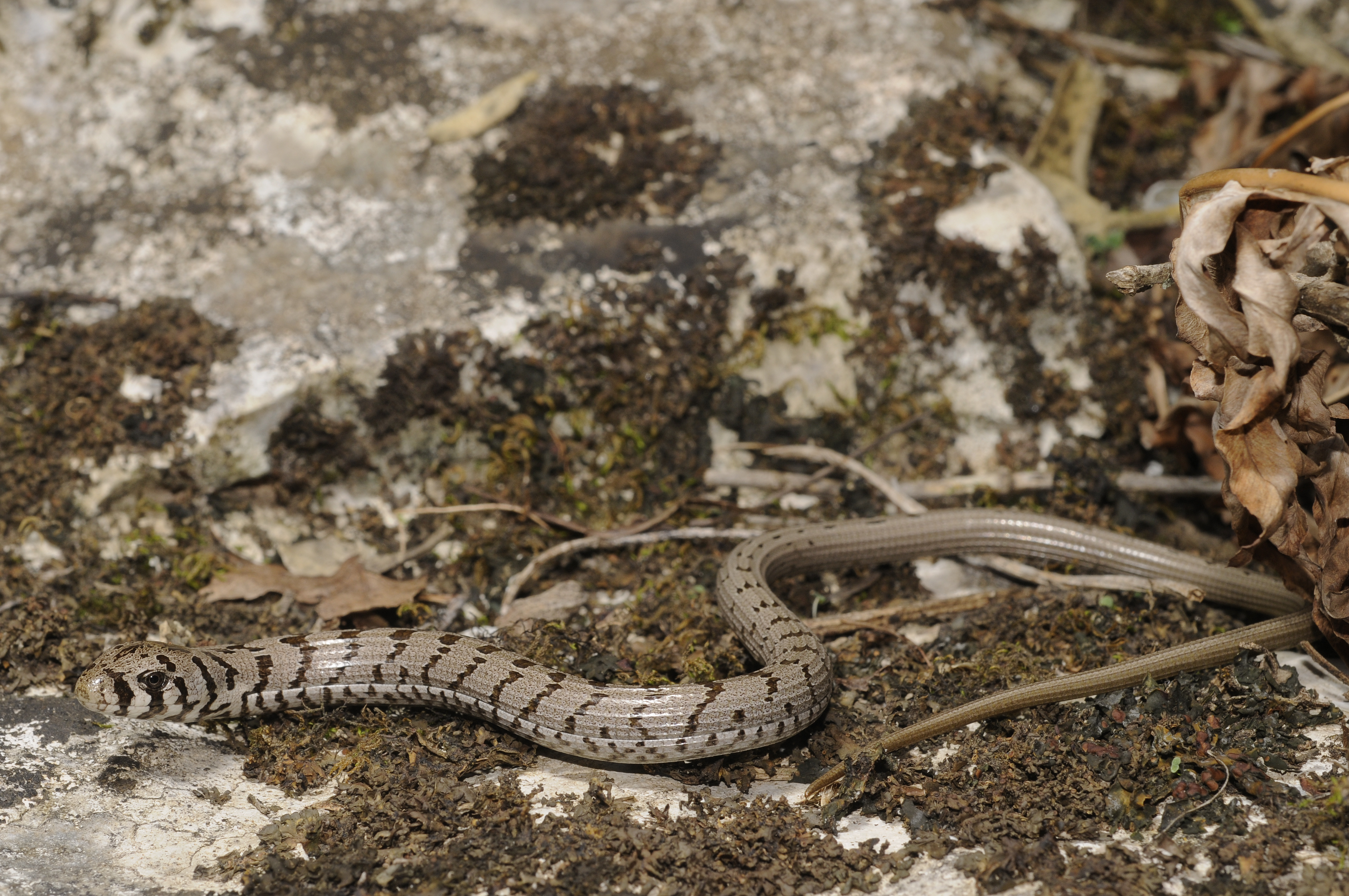 Pseudopus apodus